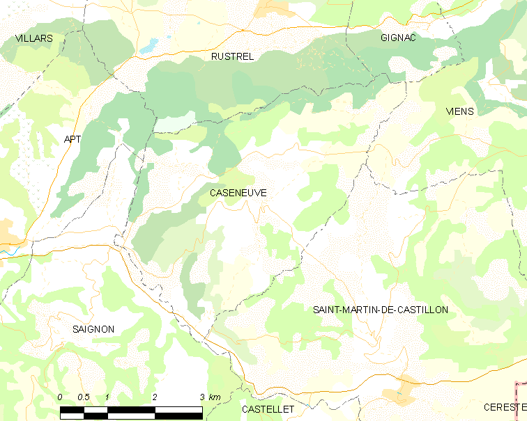 Map of French municipality Caseneuve